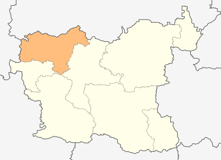 Map of Lukovit municipality, Lovech Province